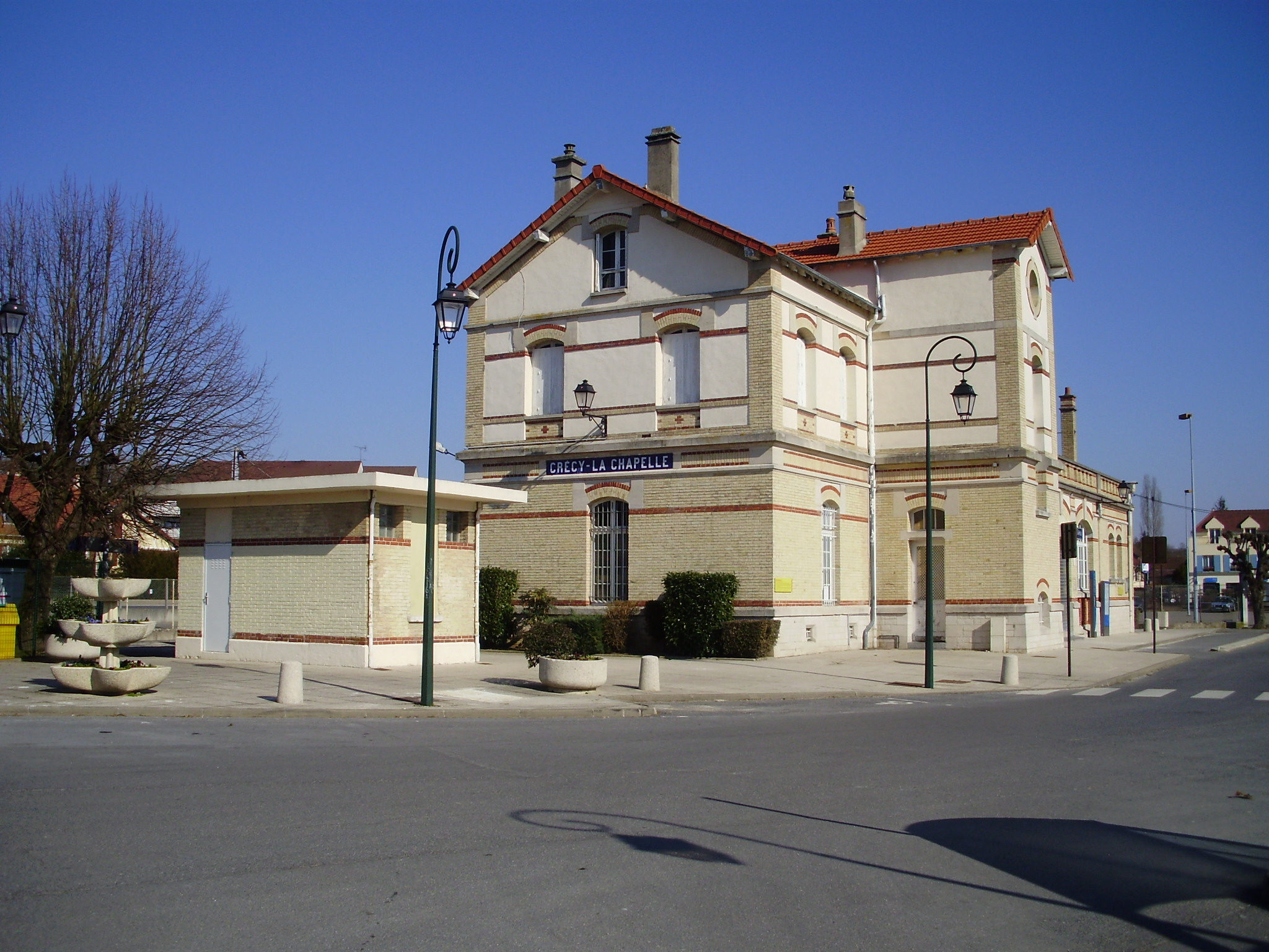 Crécy-la-Chapelle station - west side, Seine-et-Marne, France